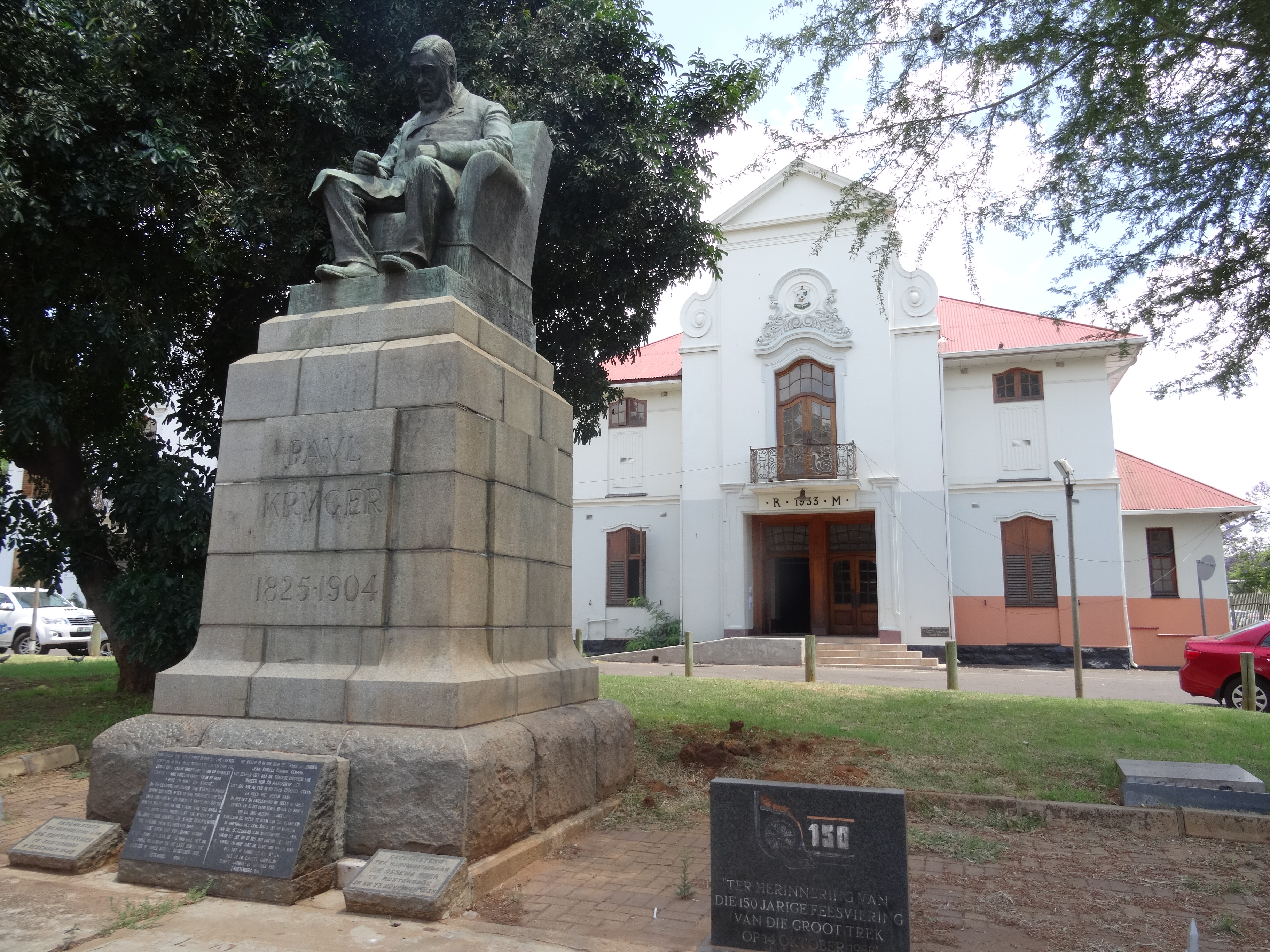 Paul Kruger statue and City Hall in Rustenburg, South Africa